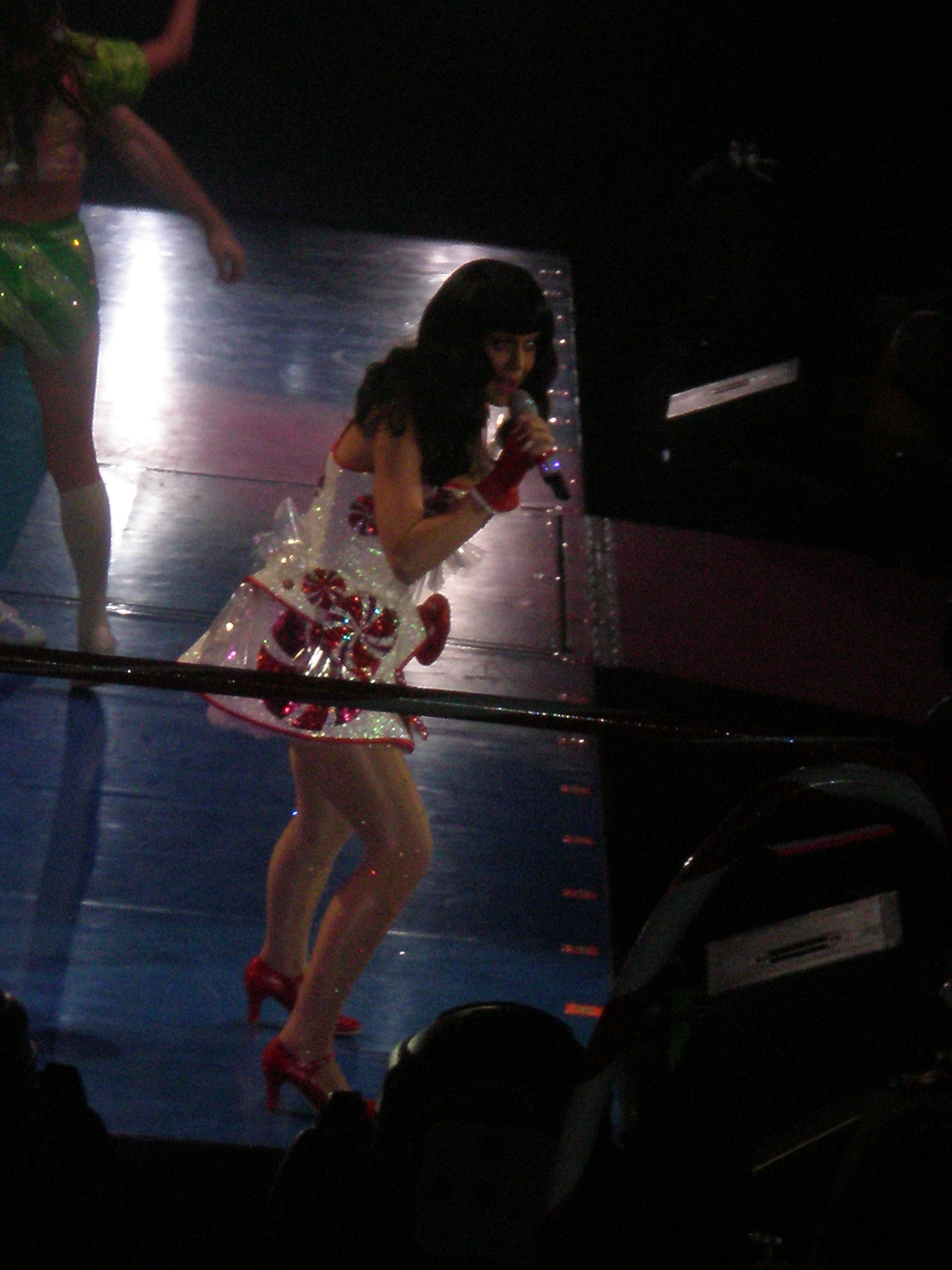 Katy Perry performing at the Air Canada Centre in Toronto, Ontario on June 30, 2011.